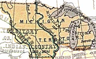 Michigan Territory circa 1834